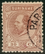 An early Suriname stamp depicting King William III of the Netherlands (Michel 19).